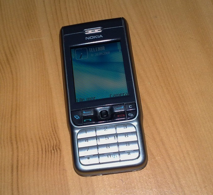 Nokia 3230 Smartphone.